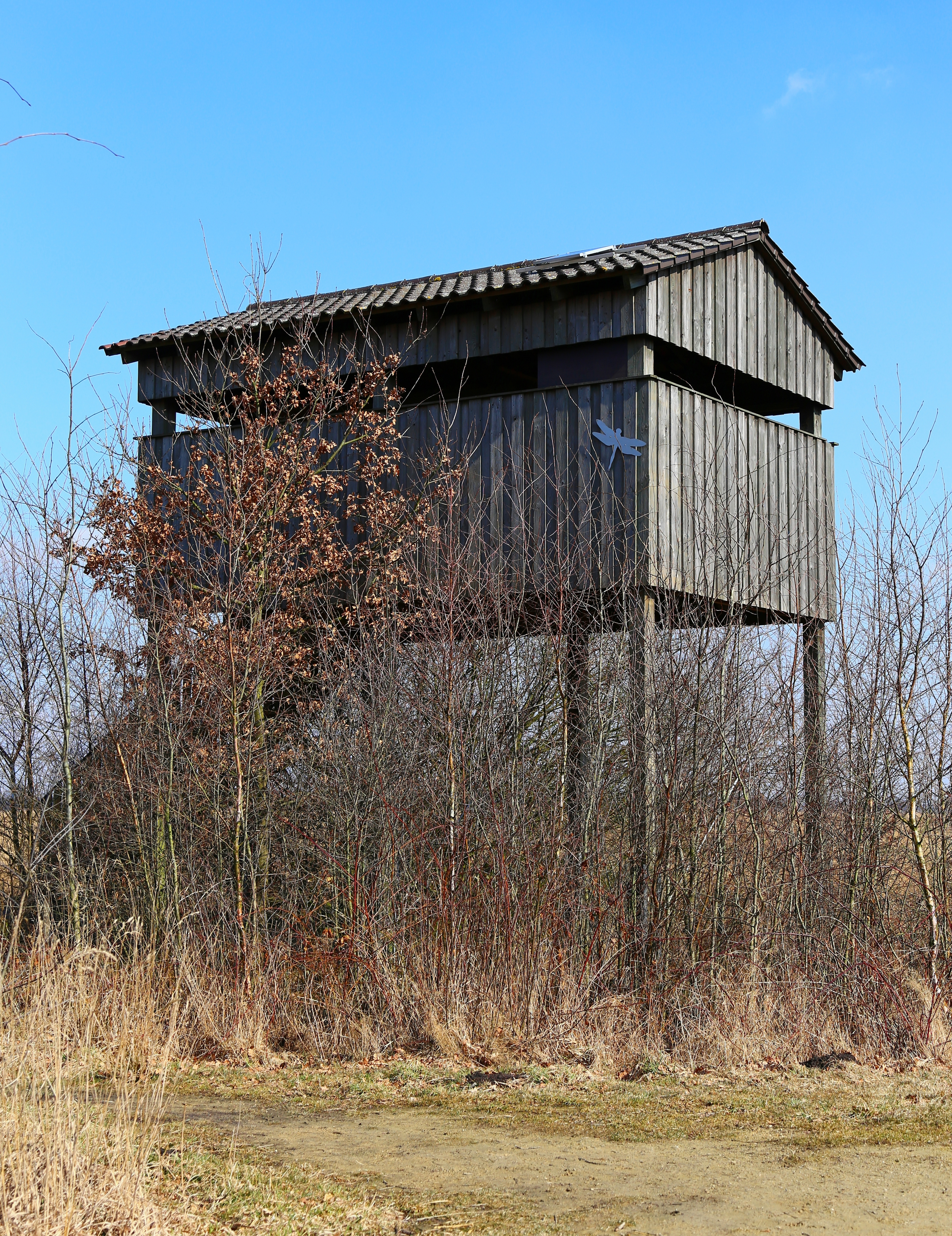 The Moorturm, the bigger one of the two observation towers in the nature reserve Recker Moor in Recke, Kreis Steinfurt, North Rhine-Westphalia, Germany. The wooden construction is mainly intended as a birdwatching tower.